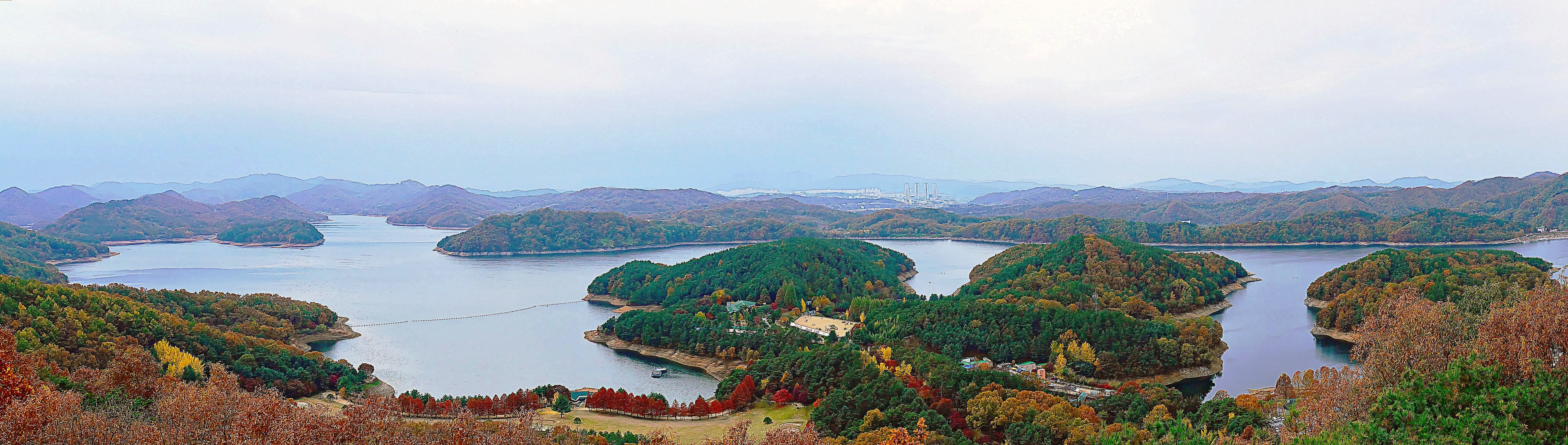 View from Cheongnamdae Observatory